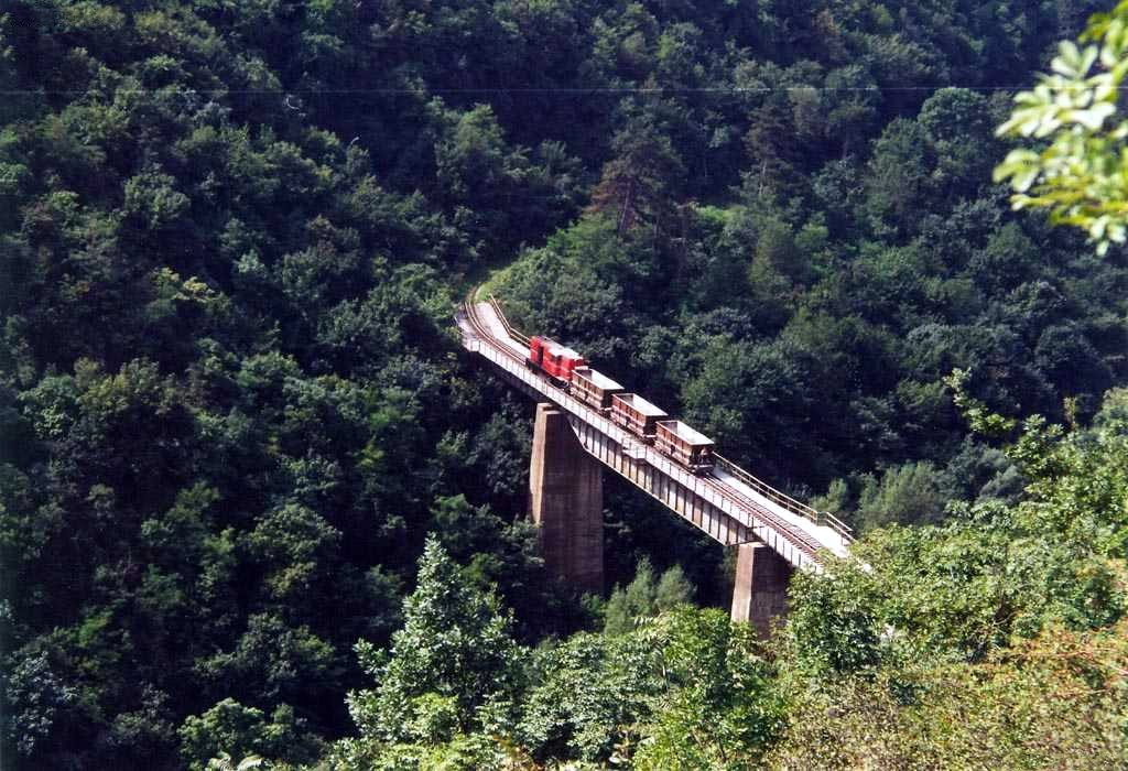 a train passing through the viaduct near Zlaști village in 2000